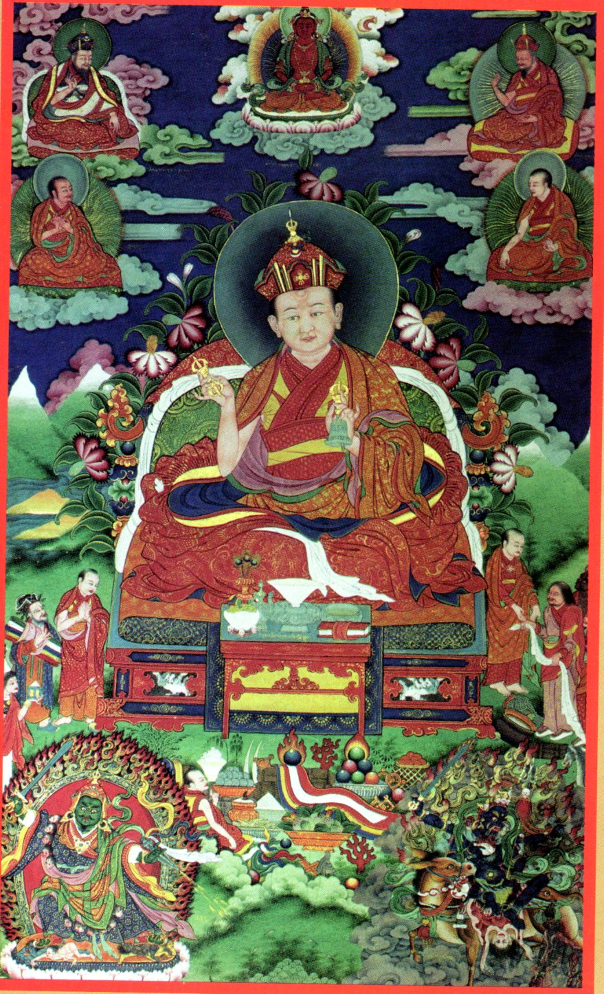 The Second Gangteng, Tendzin Lekpai Dondrub b.1645 - d.1726